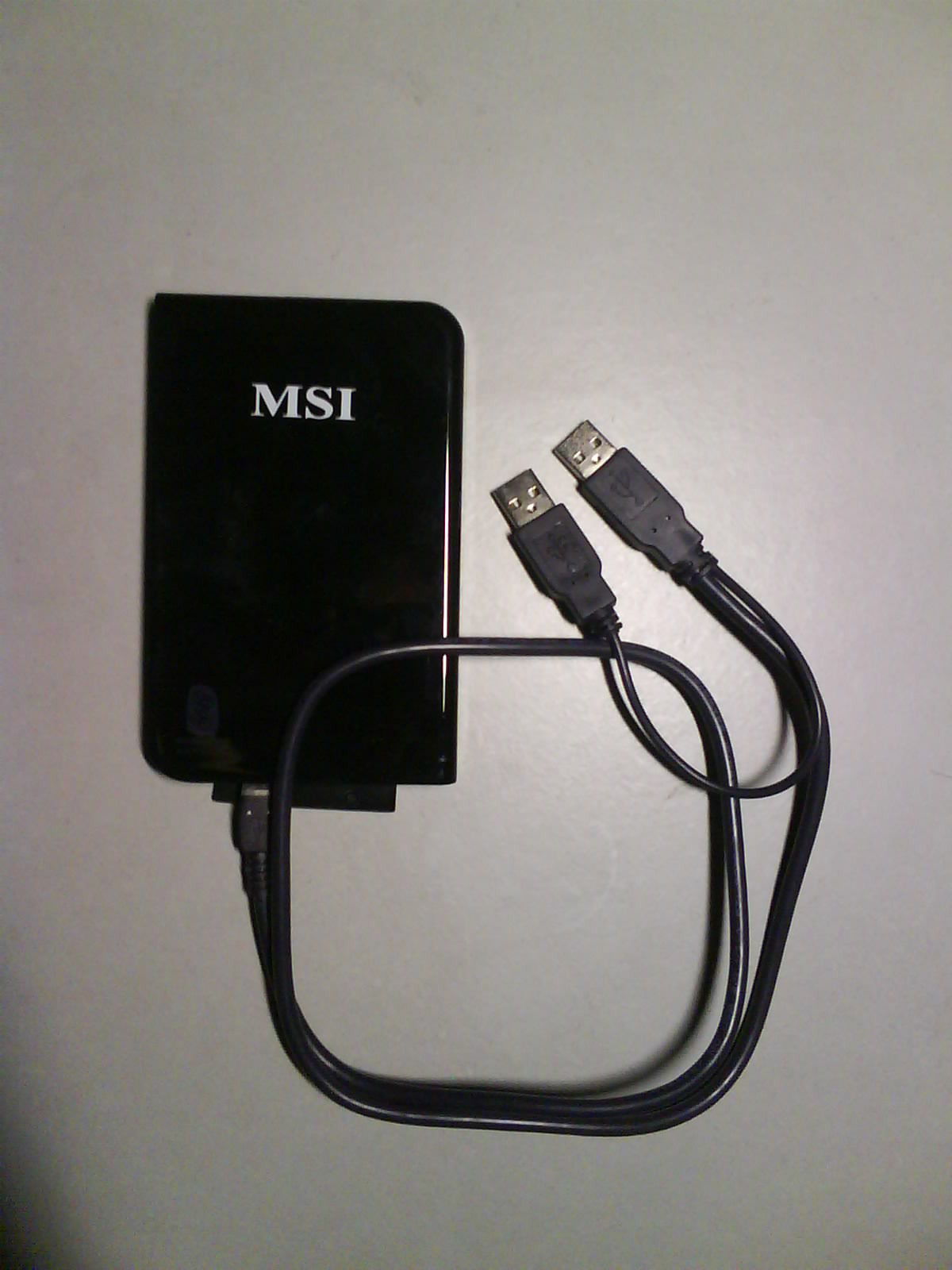 A removable hard disk driver produced by MSI